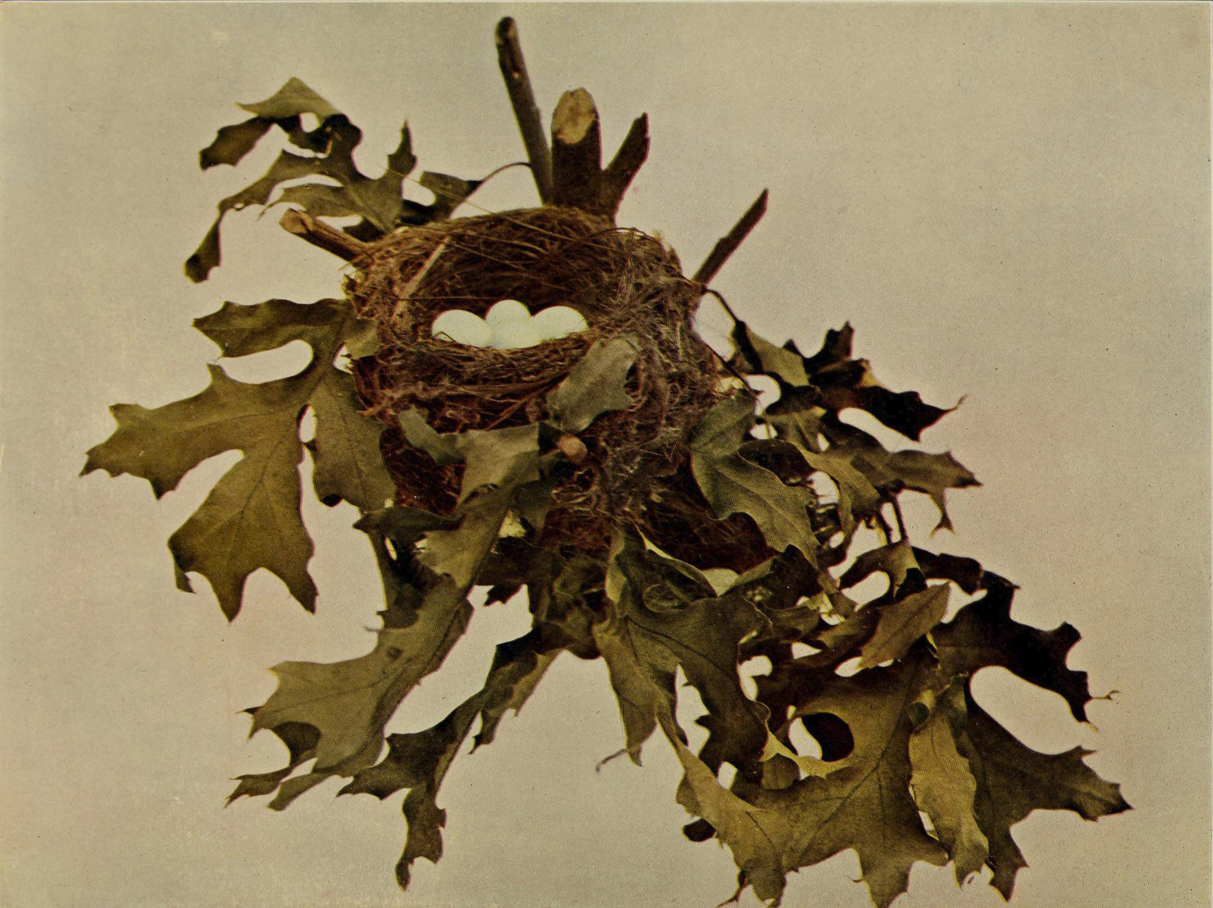 Carduelis tristis (American Goldfinch)